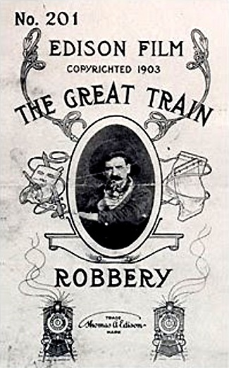 Promotional art for Edison Film's 1903 short Western The Great Train Robbery directed by Edwin S. Porter. This image originally comes from the cover of a promotional leaflet for distributors, viewable online here from Rutgers University: [1]